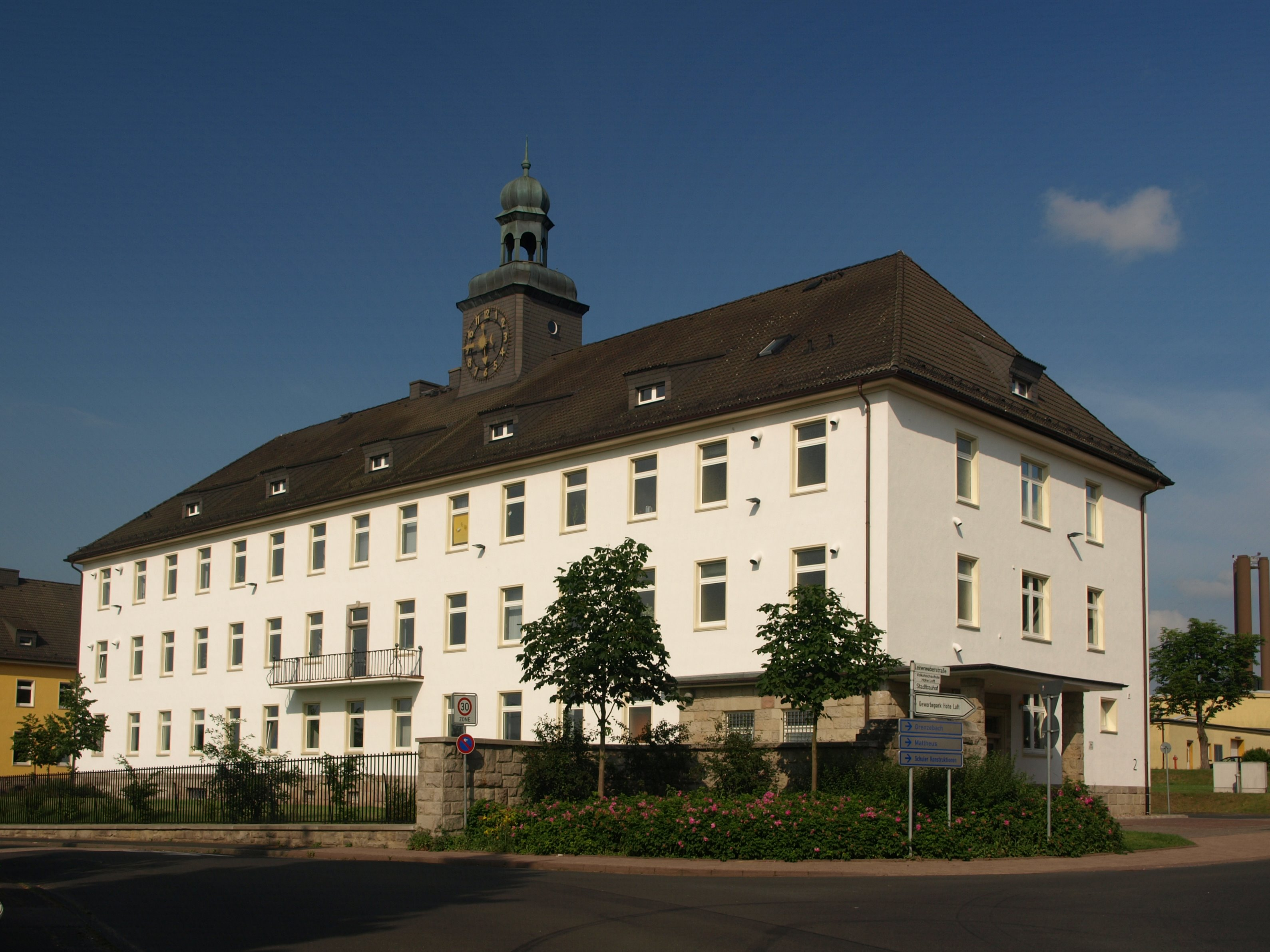 Main building of the former barracks in Bad Hersfeld (Hohe Luft). Built as barracks for the a motor vehicles unit of the Wehrmacht in 1935. Between 1948 and 1993 it was the McPheeters barracks of the United States Army. Here served the 3rd Squadron, 14th Armored Cavalry Regiment (1948 until 1972) and the 11th Armored Cavalry Regiment (1972 until 1993) at the inner German border. Today there is a customs office in this building.